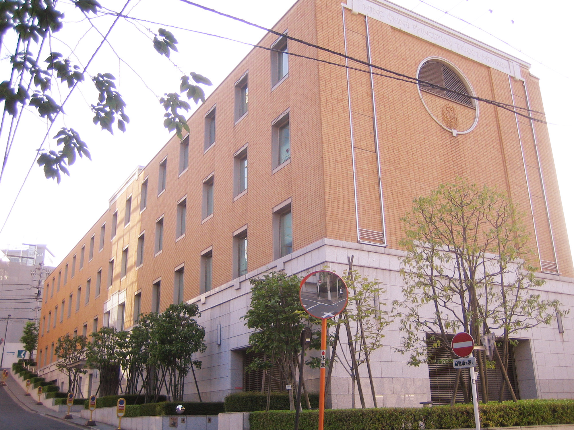 Kadokawa Shoten Publishing Co.,Ltd. (Kadokawa Shoten), a publisher in Chiyoda, Tokyo, Japan